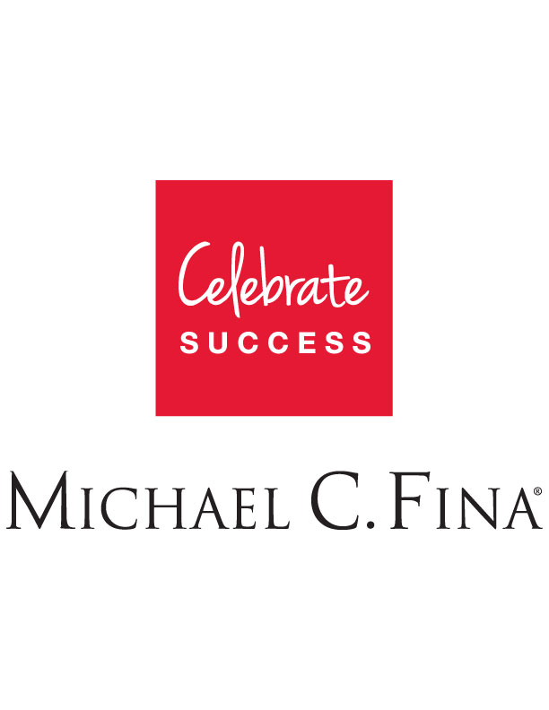 This is the corporate logo for the Michael C. Fina company. I as Director of Communications for Michael C. Fina created and have full authority to use it